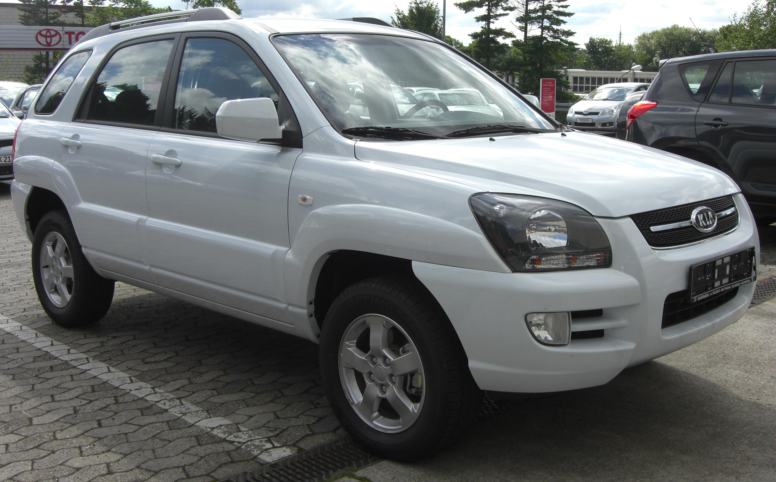 Kia Sportage Facelift